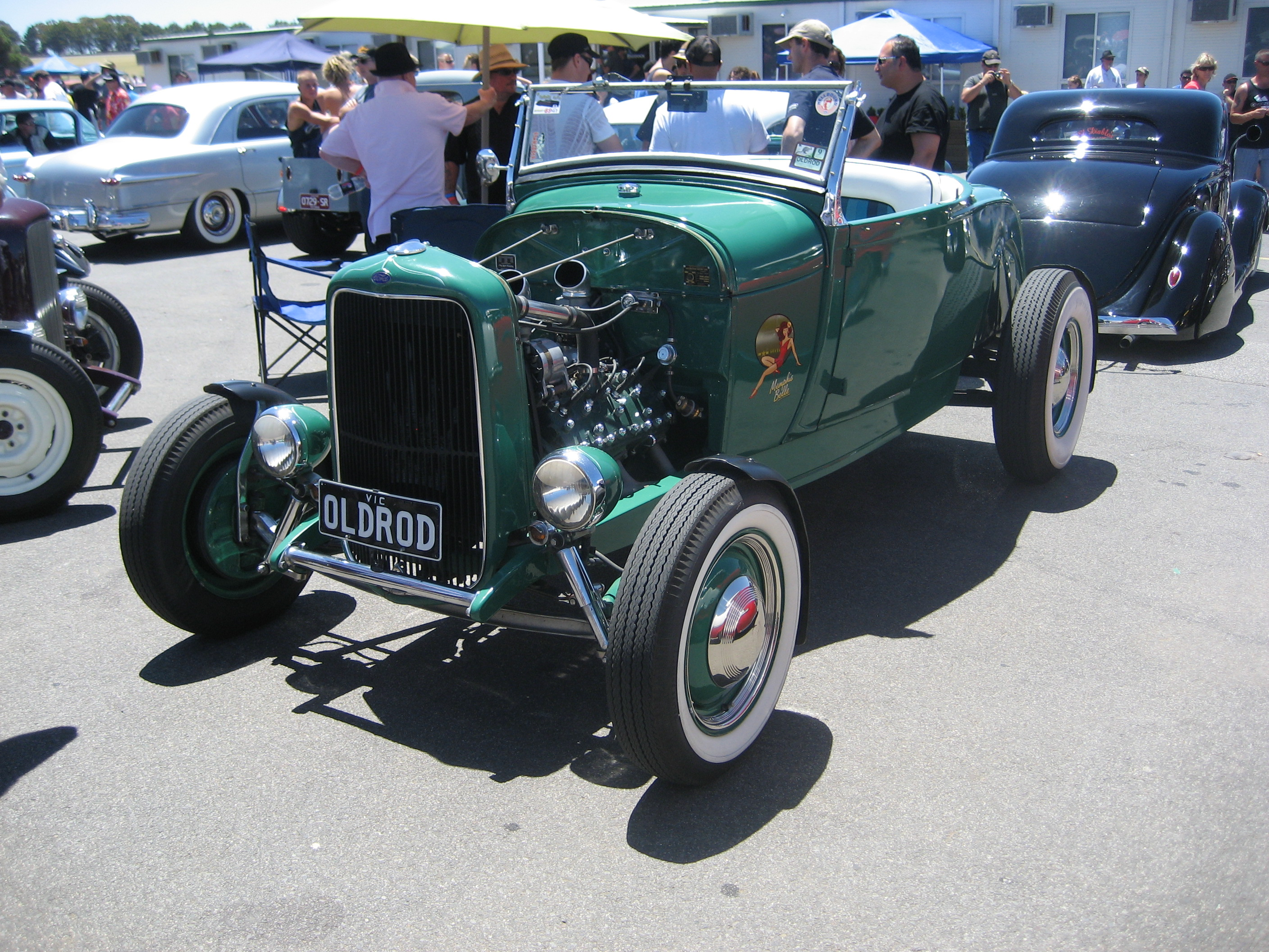 Old School Hot Rod , even a flathead